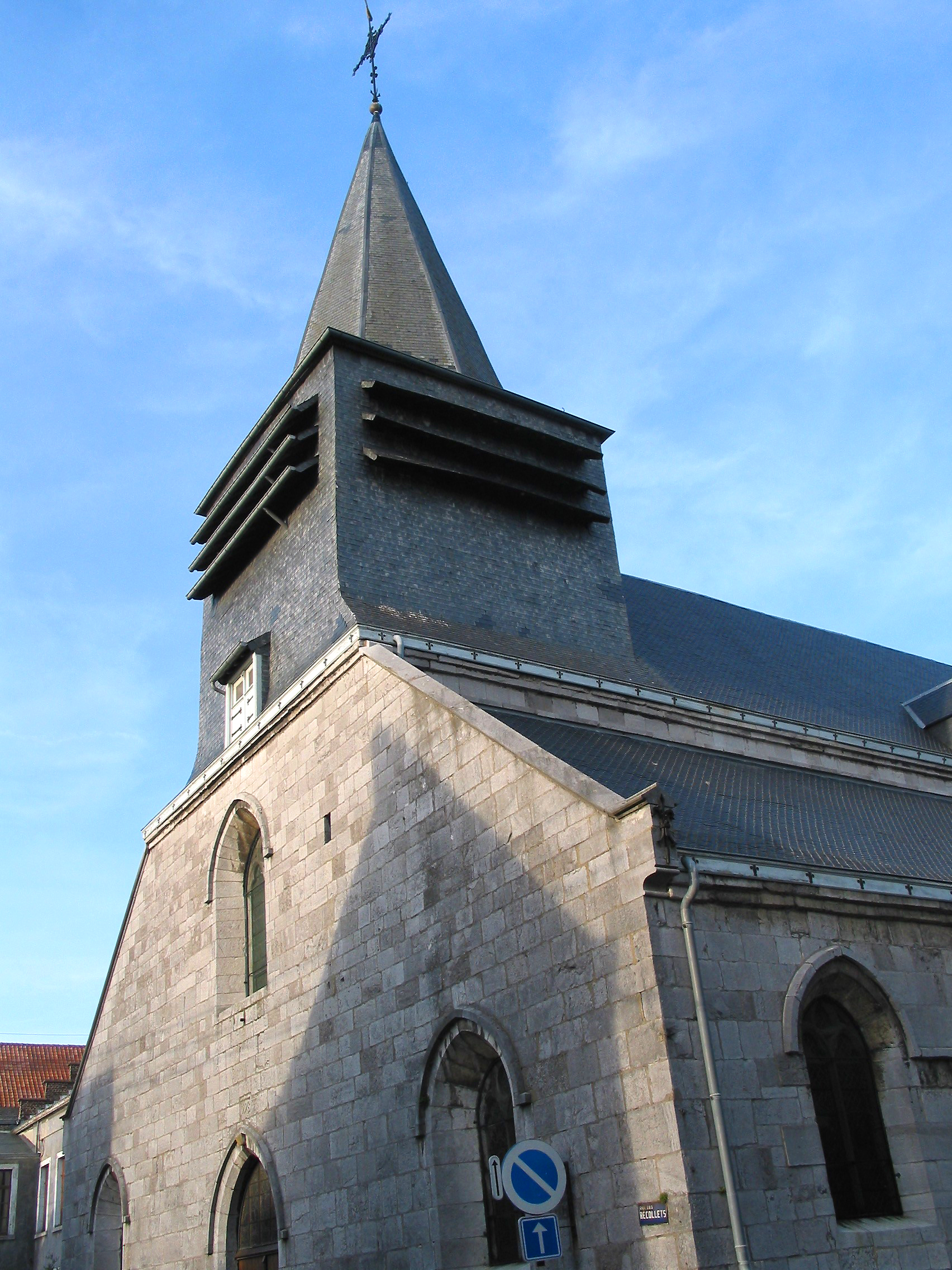 Philippeville (Belgium), the Saint Philip’s church (1556).